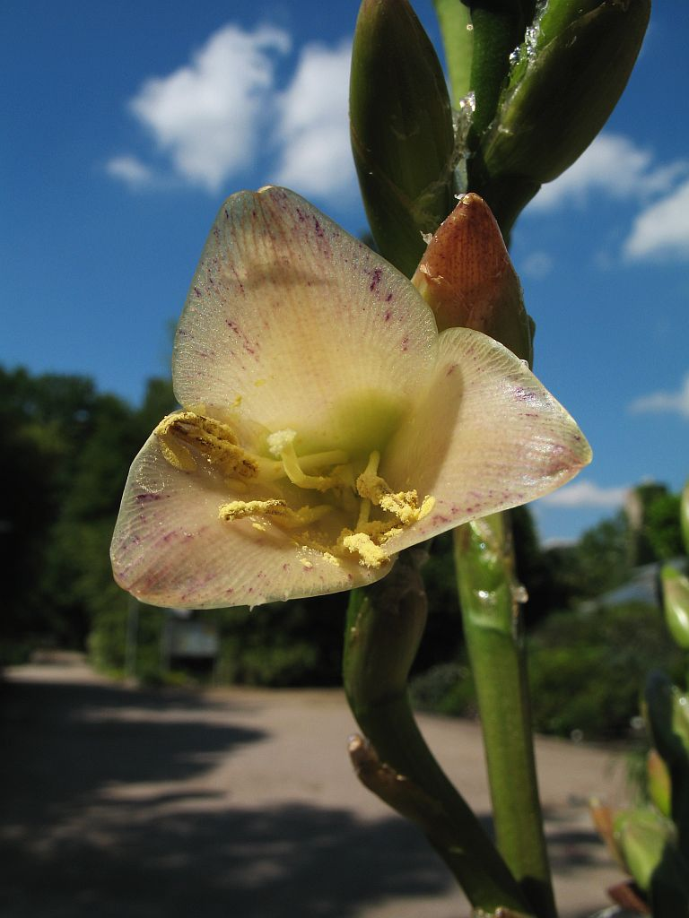 Vriesea nanuzae in cultivation at the Botanical Garden of Heidelberg, Germany.